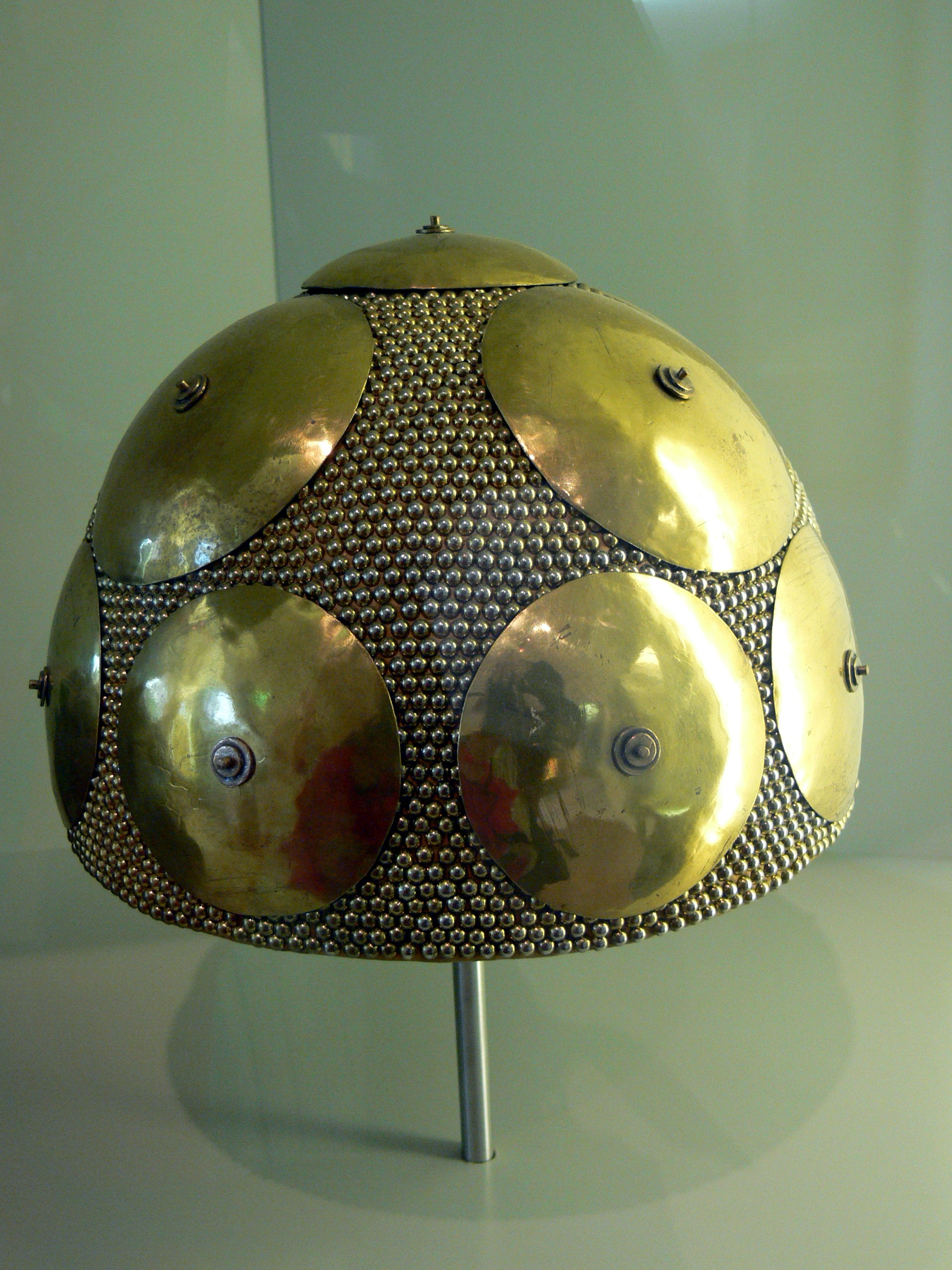 Castle museums in Linz ( Upper Austria ). Archeological collection: Celtic helmet from Mitterkirchen, Hallstatt culture, 700 BC ( reconstruction ).